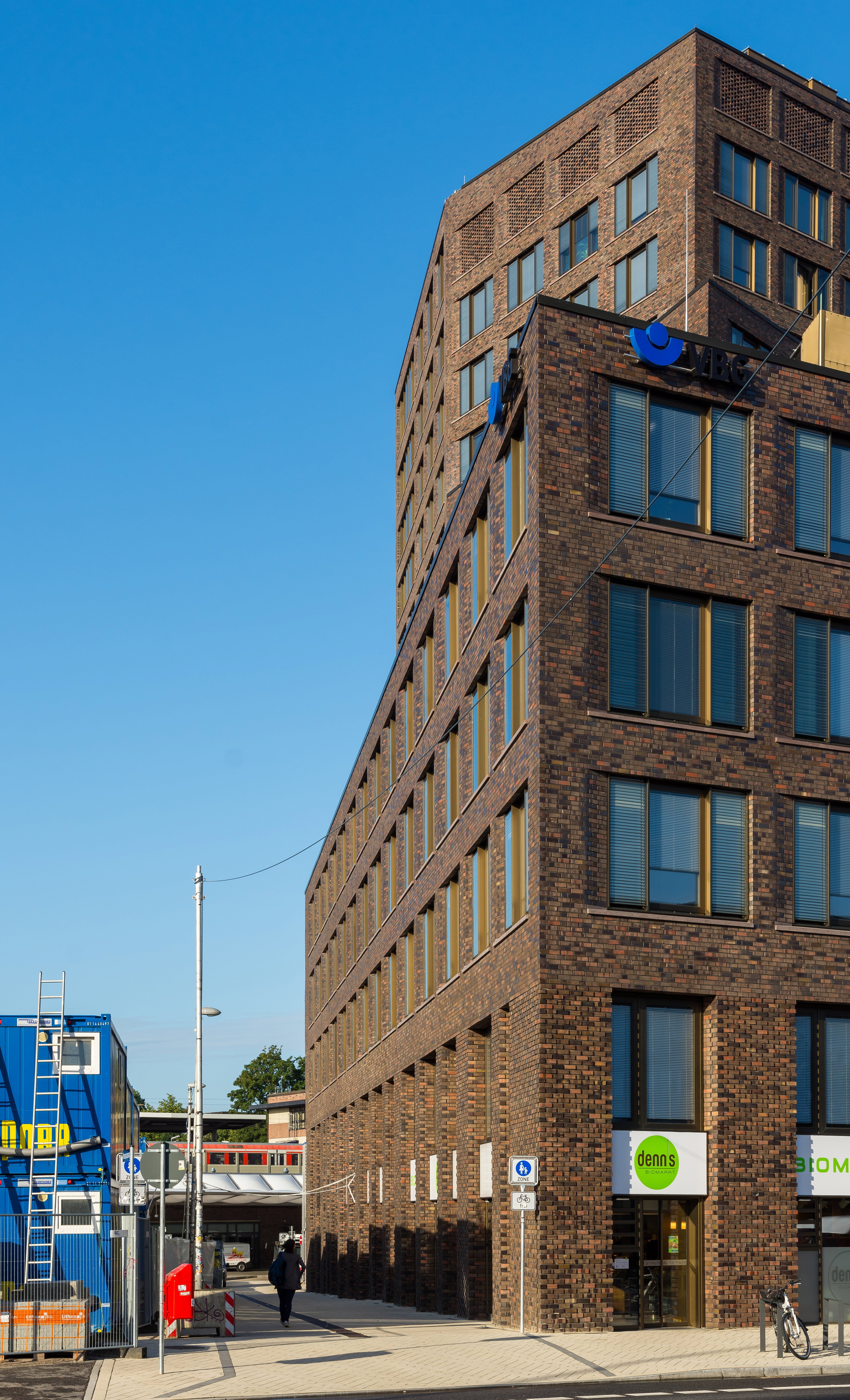 The Massaquoi-Passage, a short passage near the Barmbek railroad station in Hamburg-Barmbek-Nord, Germany. It is named after Hans-Jürgen Massaquoi, an African-German (and American) journalist and long-time editor at Ebony magazine who grew up in Barmbek in the 1930s and, late in his life, wrote a book about his childhood in Nazi Germany.